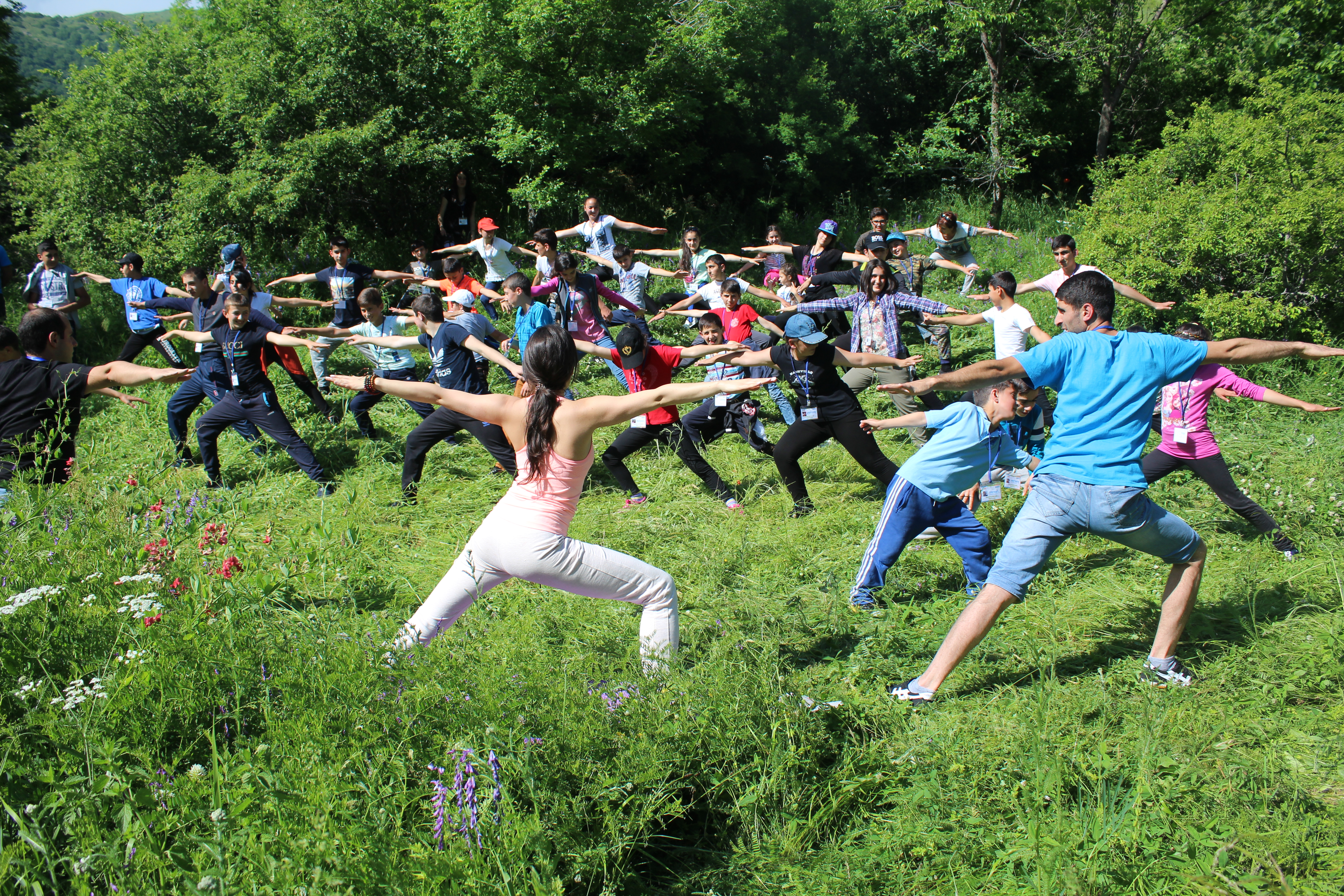 Summer Wikicamp 2017 (I)